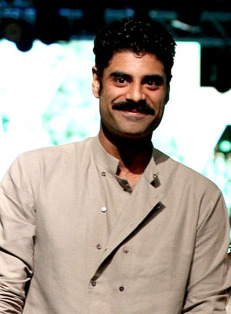 Celebs attend the LFW 2016 on Day 3